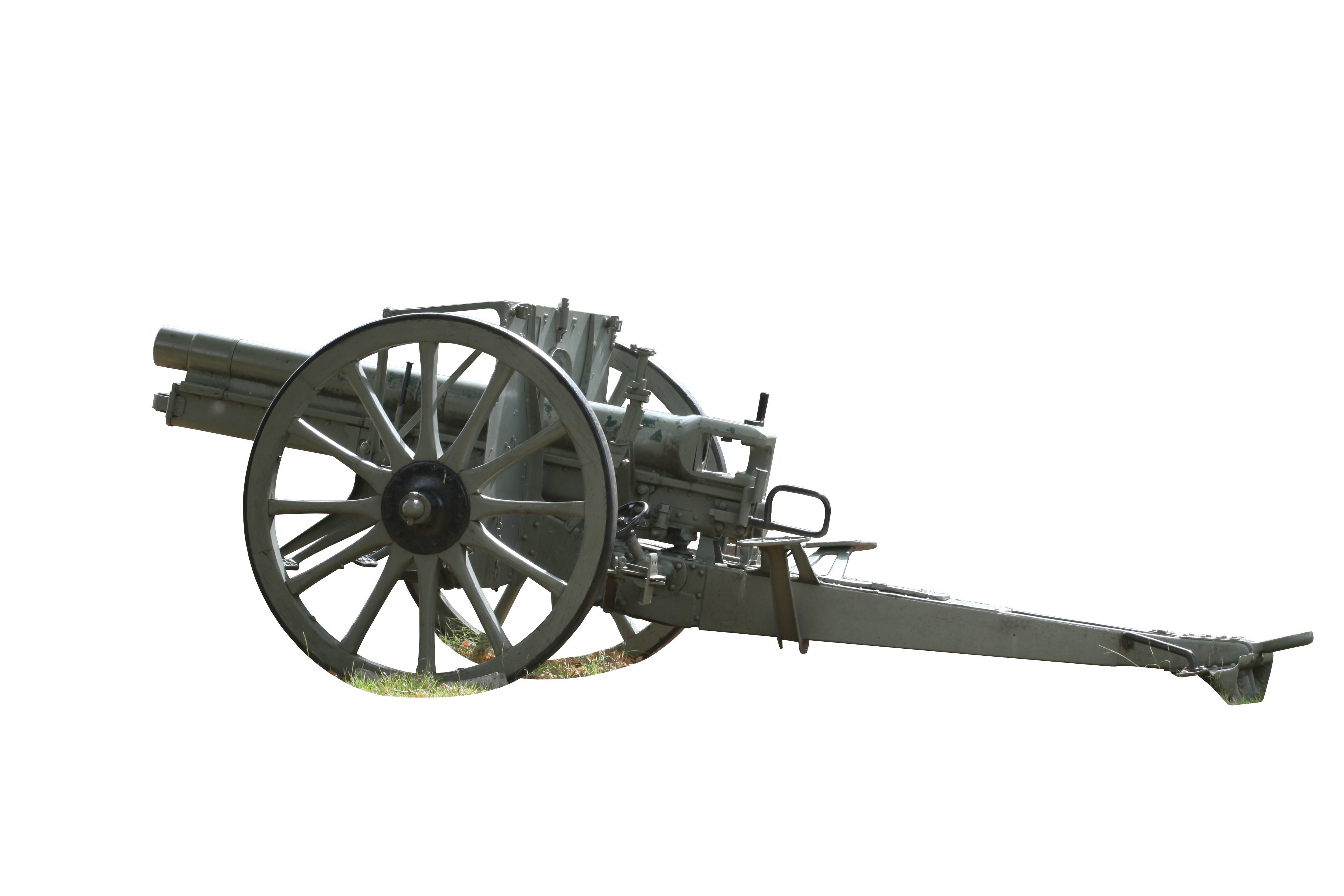 7.7 cm Feldkanone 96 neuer Art